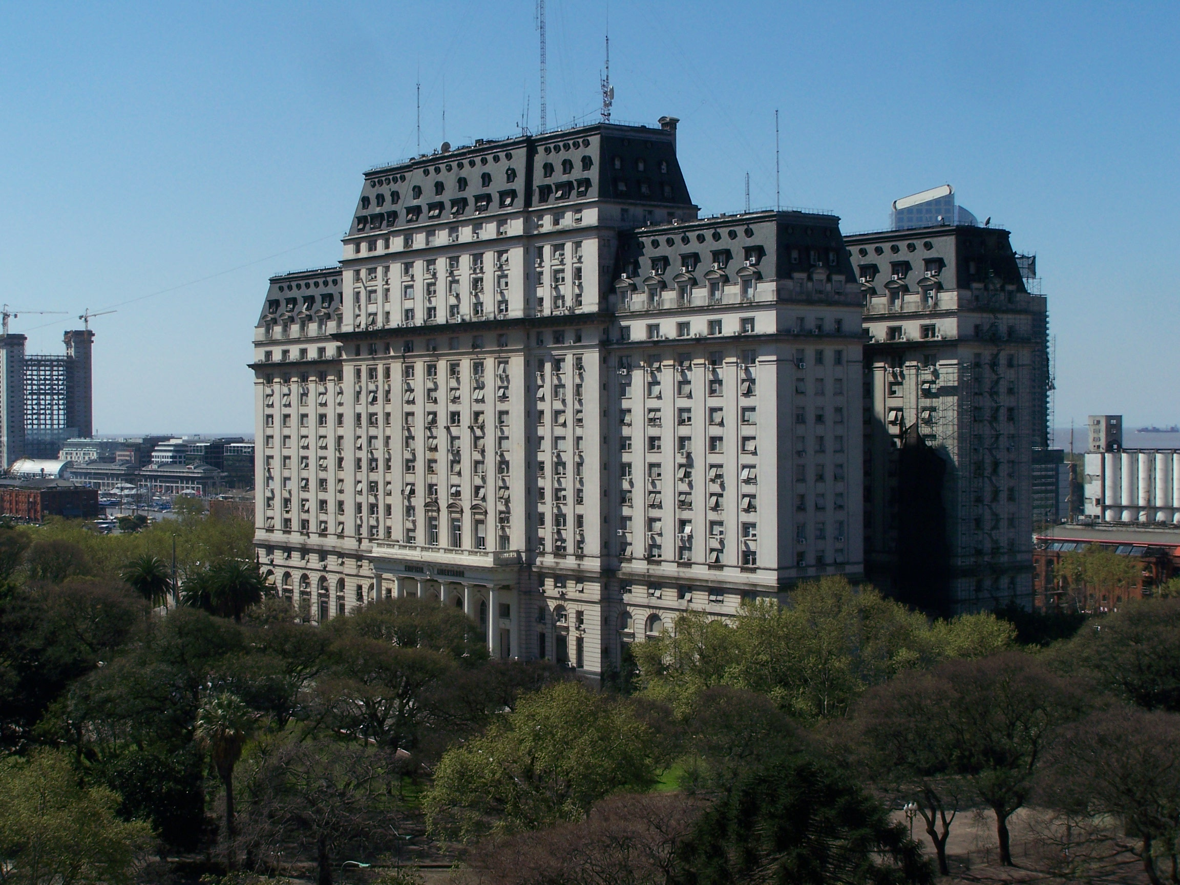 the so-called "Edificio Libertador" building, seat of the Ministry of Defence of Argentina in Buenos Aires City, Argentina